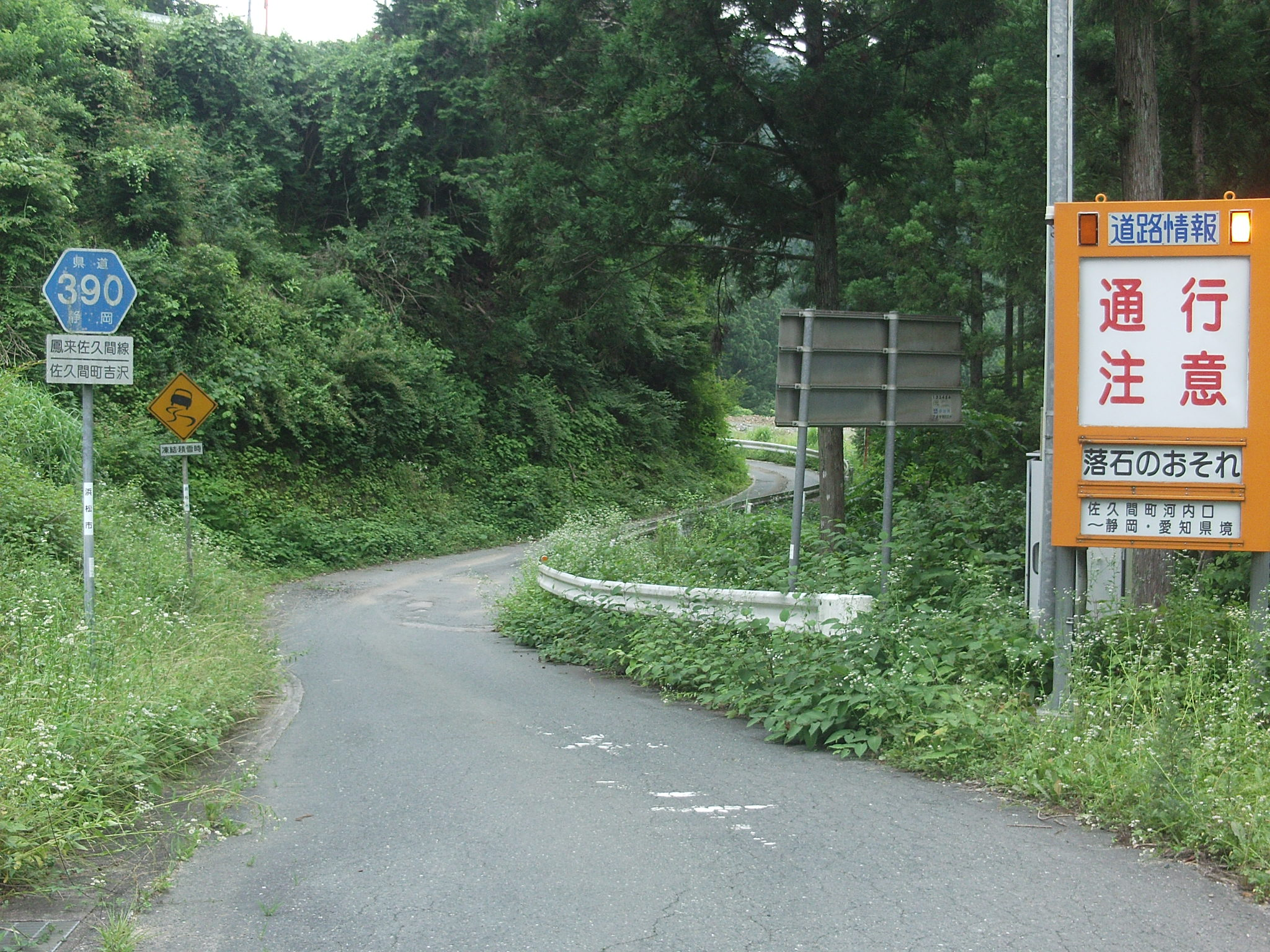 Shizuoka prefectural road No.390 in Sakumacho Urakawa, Tenryu-ku, Hamamatsu, Shizuoka.